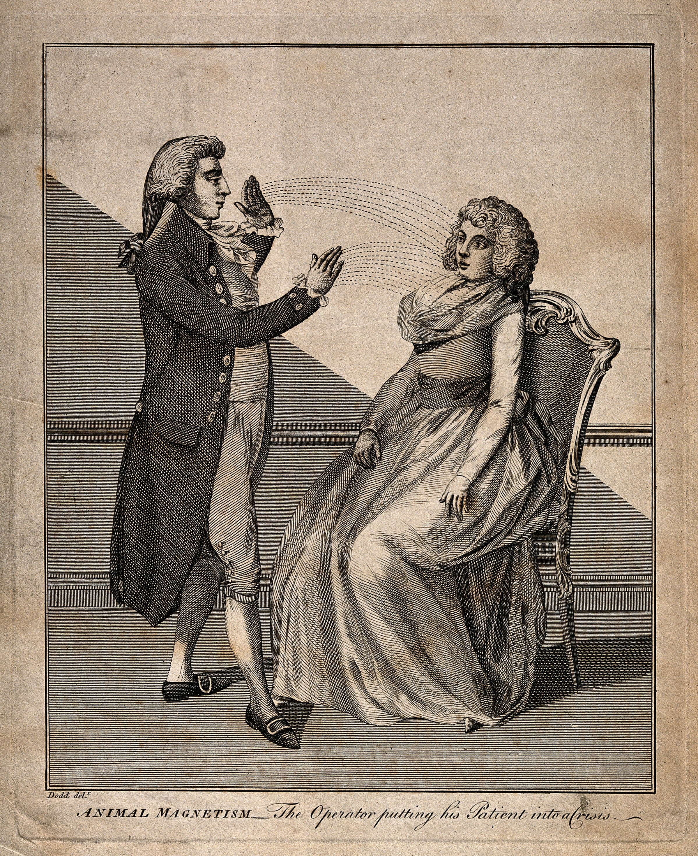 A man hypnotising a woman using the animal magnetism method. Engraving, 1802, after D. Dodd. Iconographic Collections Keywords: Hypnosis; ANIMAL MAGNETISM; Daniel Dodd; hypnotism; sibley, ebenezer {d. 1800}